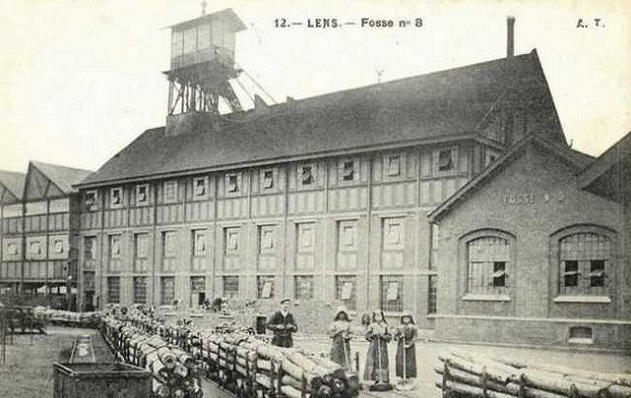 Coalpits n° 8 - 8 bis, Compagnie des mines de Lens, Vendin-le-Vieil, Pas-de-Calais, France.